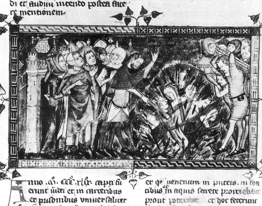 Burning of Jews during the Black Death epidemic, 1349. Brussels, Bibliothèque royale de Belgique, MS 13076-77, f. 12v.